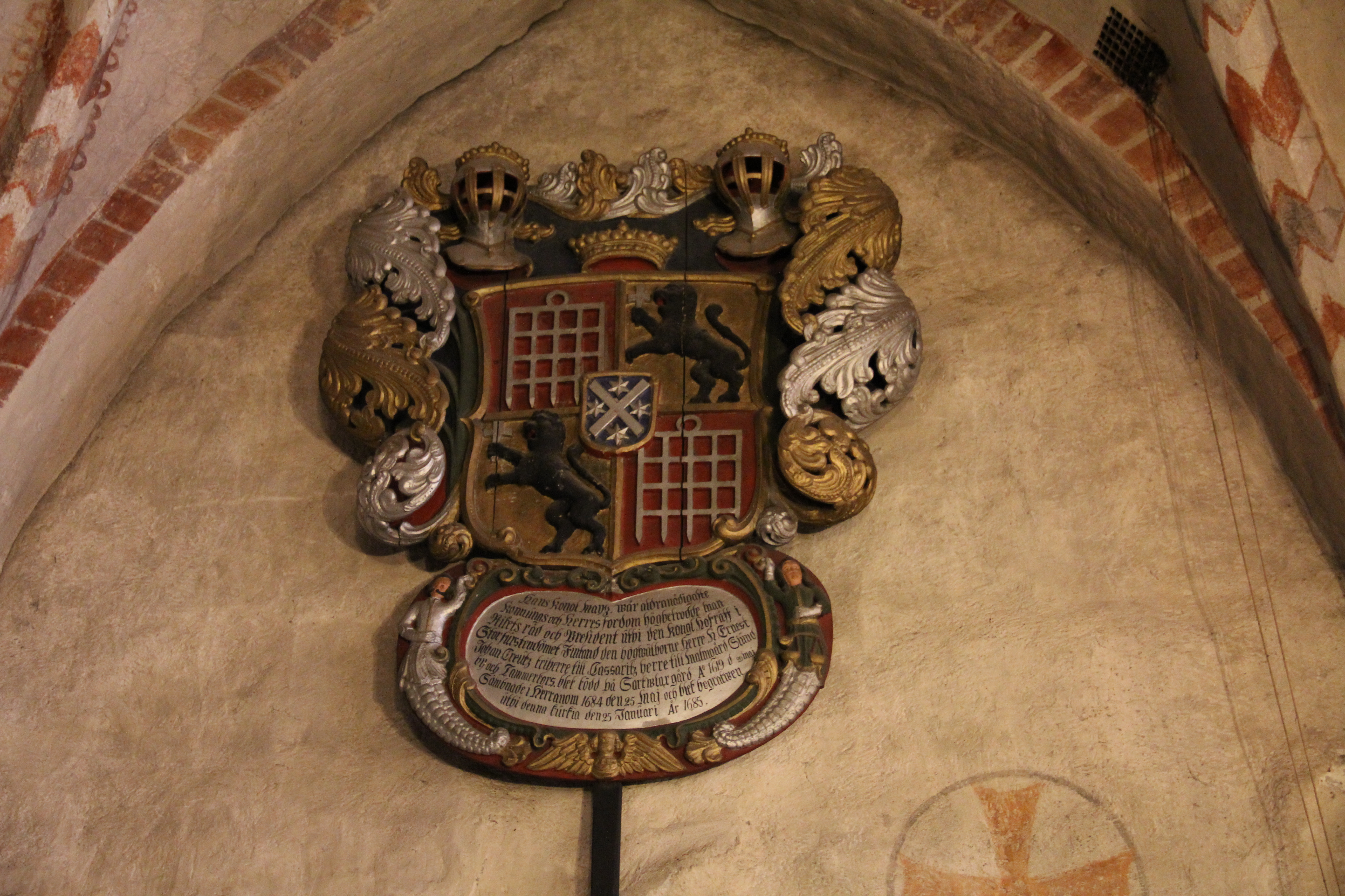 Pernå church, Pernå, Loviisa, Finland. Built presumably between 1410-1440 by Master of Pernå. - Funeral escutcheon of Ernest Johan Creutz (senior) (1619-1684) in the church chancel.